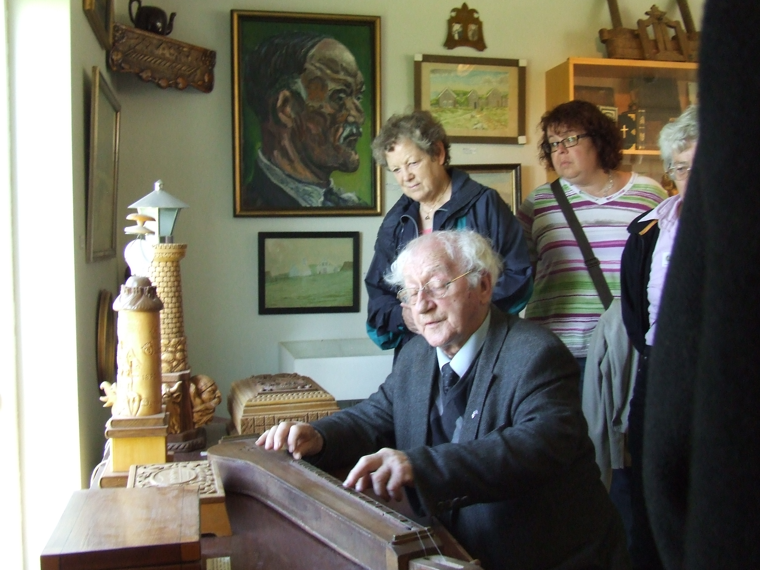 Þórður Tómasson of Skógar, Iceland, playing the langspil.